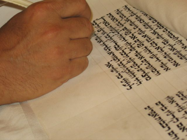 Sofer writing the last letters of the Torah book in the mitzpeh club.